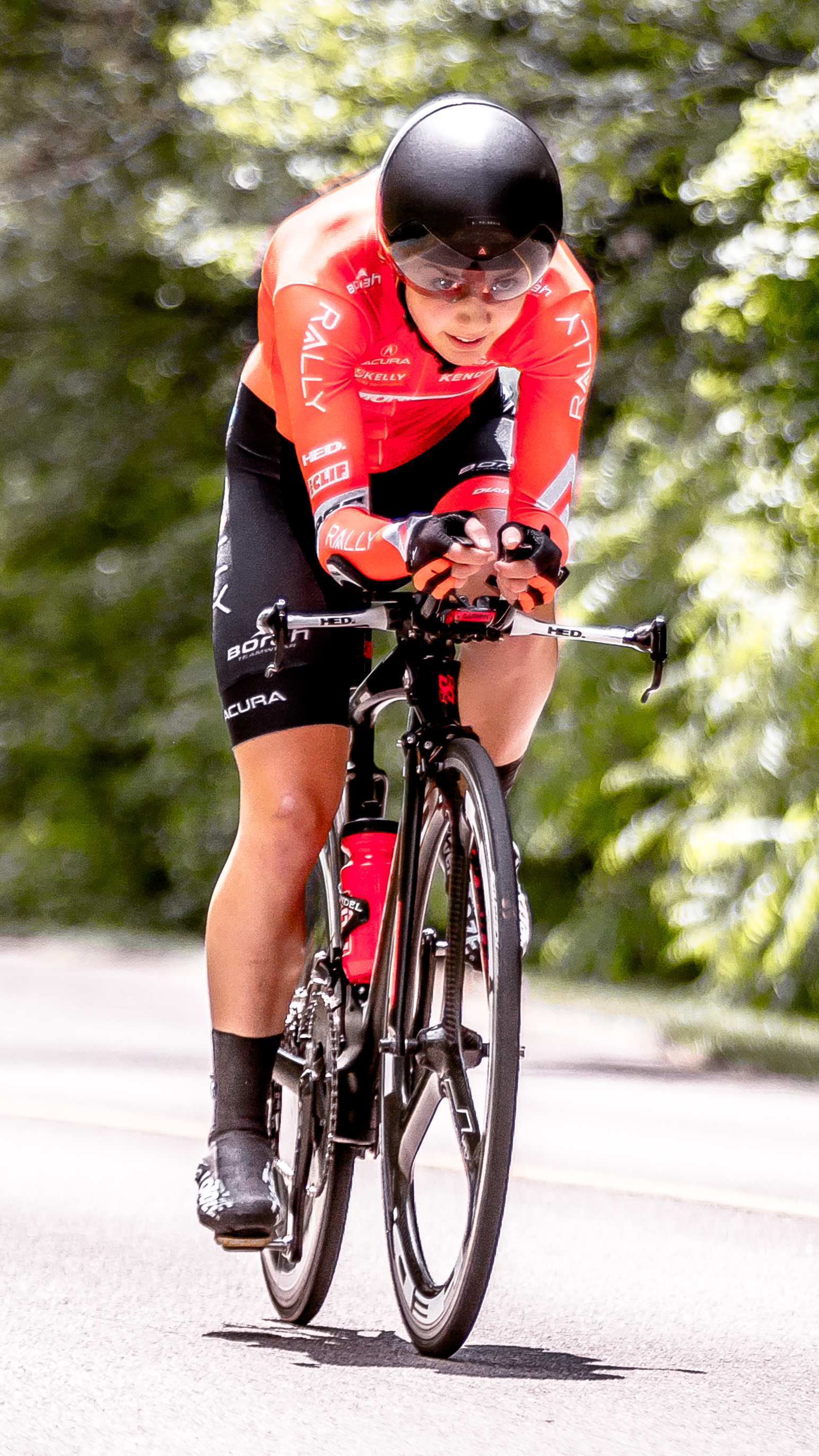 Sara Poidevin of Rally Cycling. Elite & Under 23 Women's Time Trial, Canadian Road Cycling Championships. Gatineau, June 28th, 2016